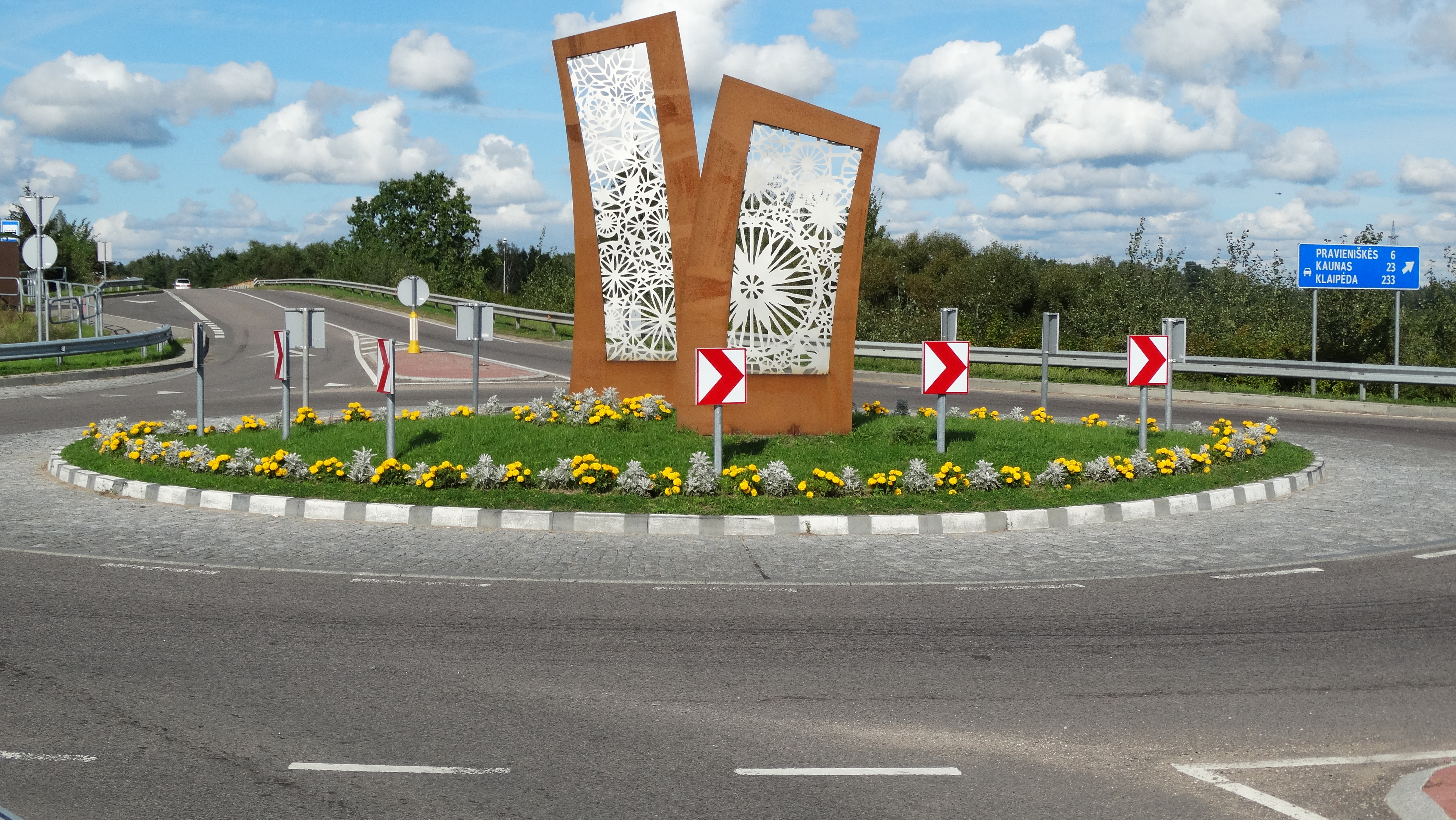 Mini-roundabout in Rumšiškės, Kaišiadorys District, Lithuania